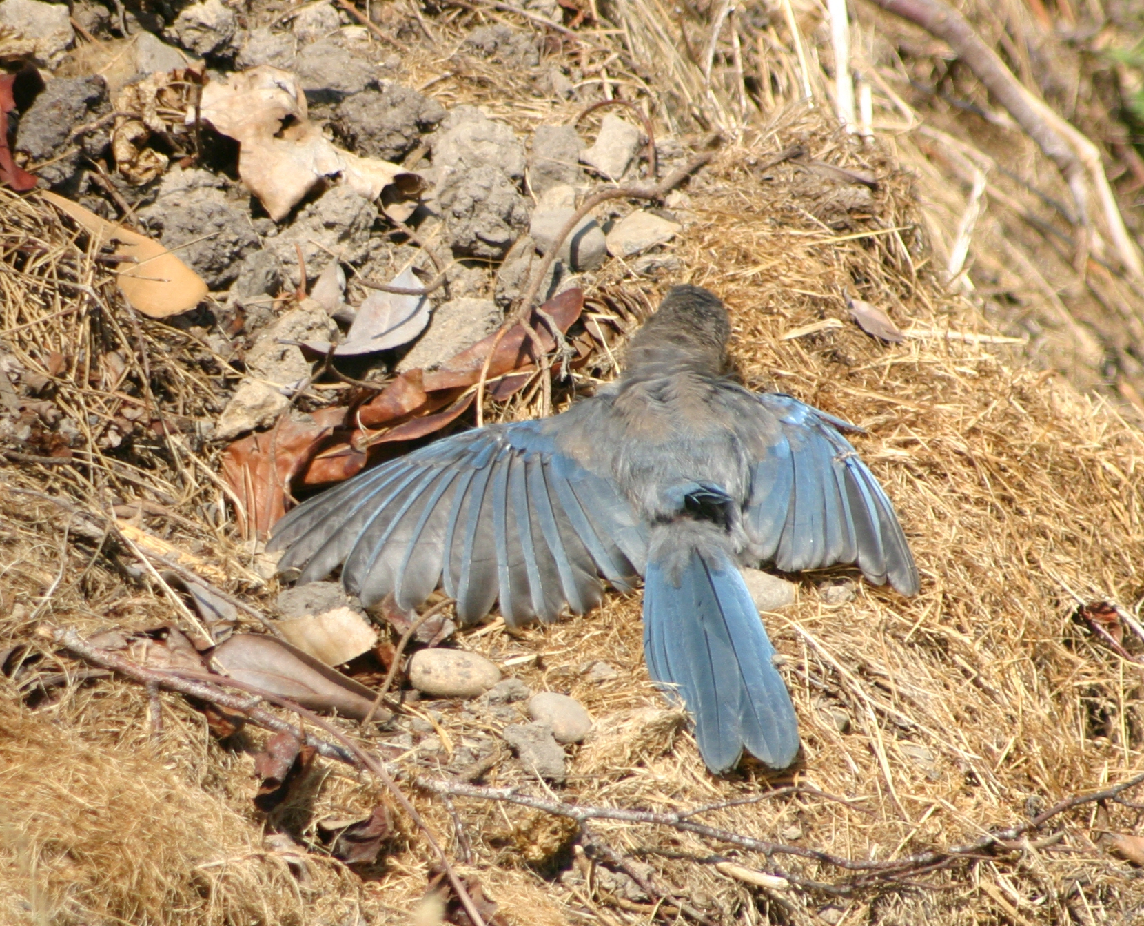 A Western Scrub Jay (Aphelocoma californica) sunbathing in West Linn, Oregon, USA. - "It flew down from the bushes, laid on the ground, and spread it's wings out. It lay there for about a minute before it hopped up and flew away."